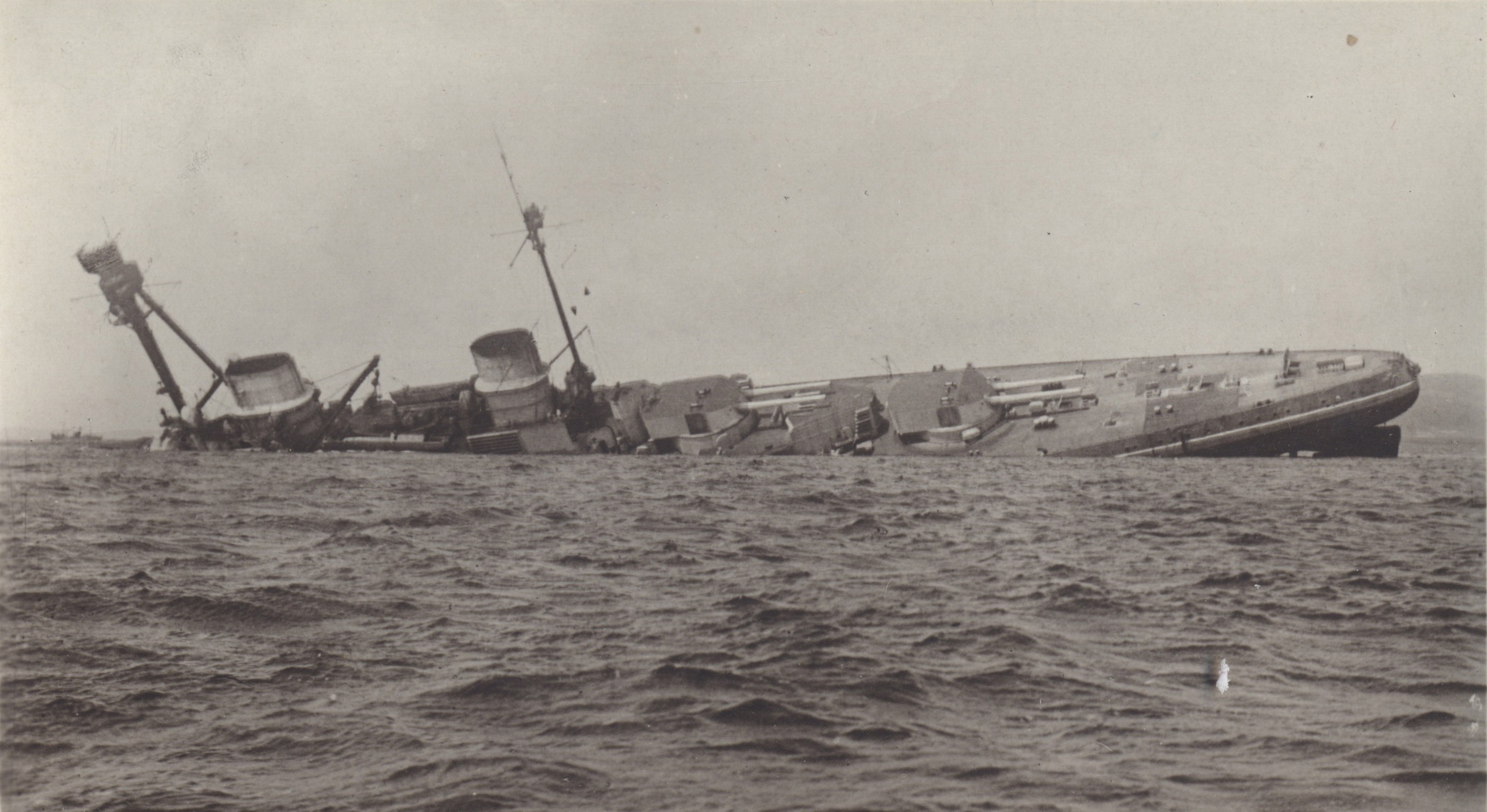 SMS Derfflinger sinks at Scapa Flow after being scuttled by her crew.